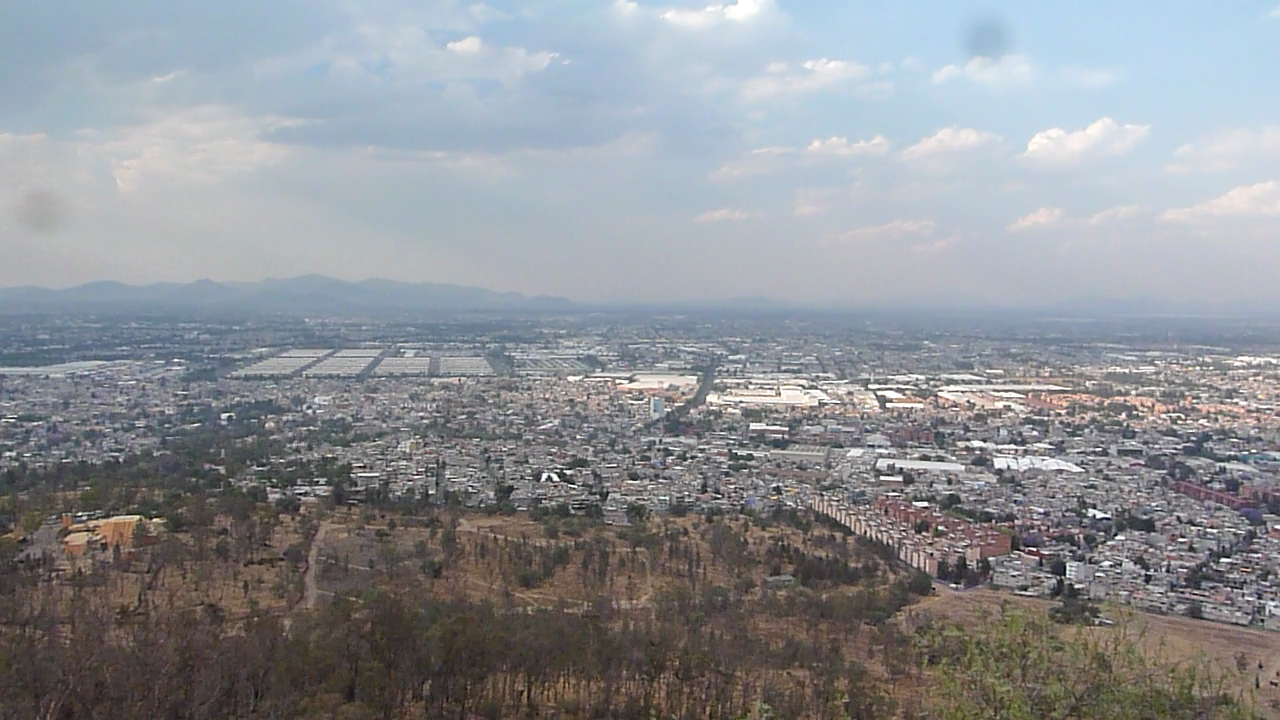 View from Cerro de la Estrella (Mexico DF) towards the North, with Central de Abastos in the foreground